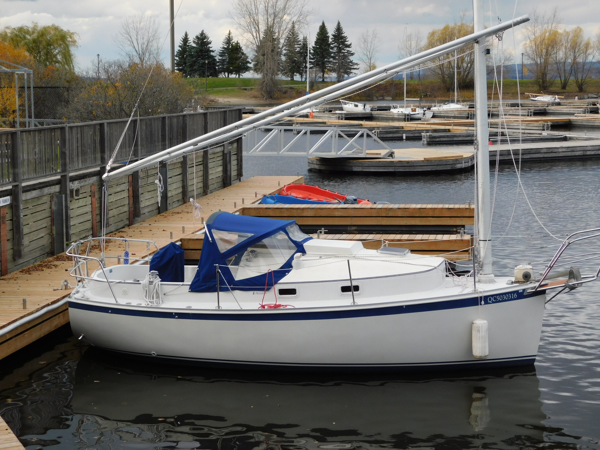 A Nonsuch 22 sailboat named Sweetie Pie V .